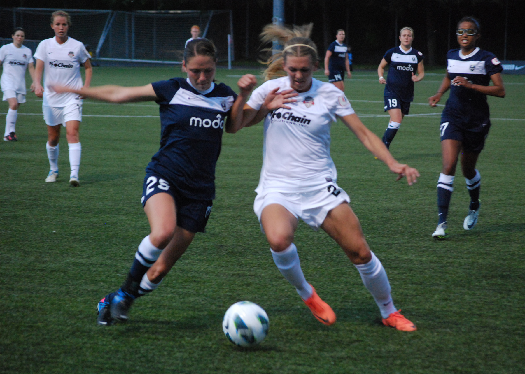 Seattle Reign FC defender Kiersten Dallstream battles for the ball against Stephanie Ochs of the Washington Spirit at Starfire Stadium on May 16, 2013